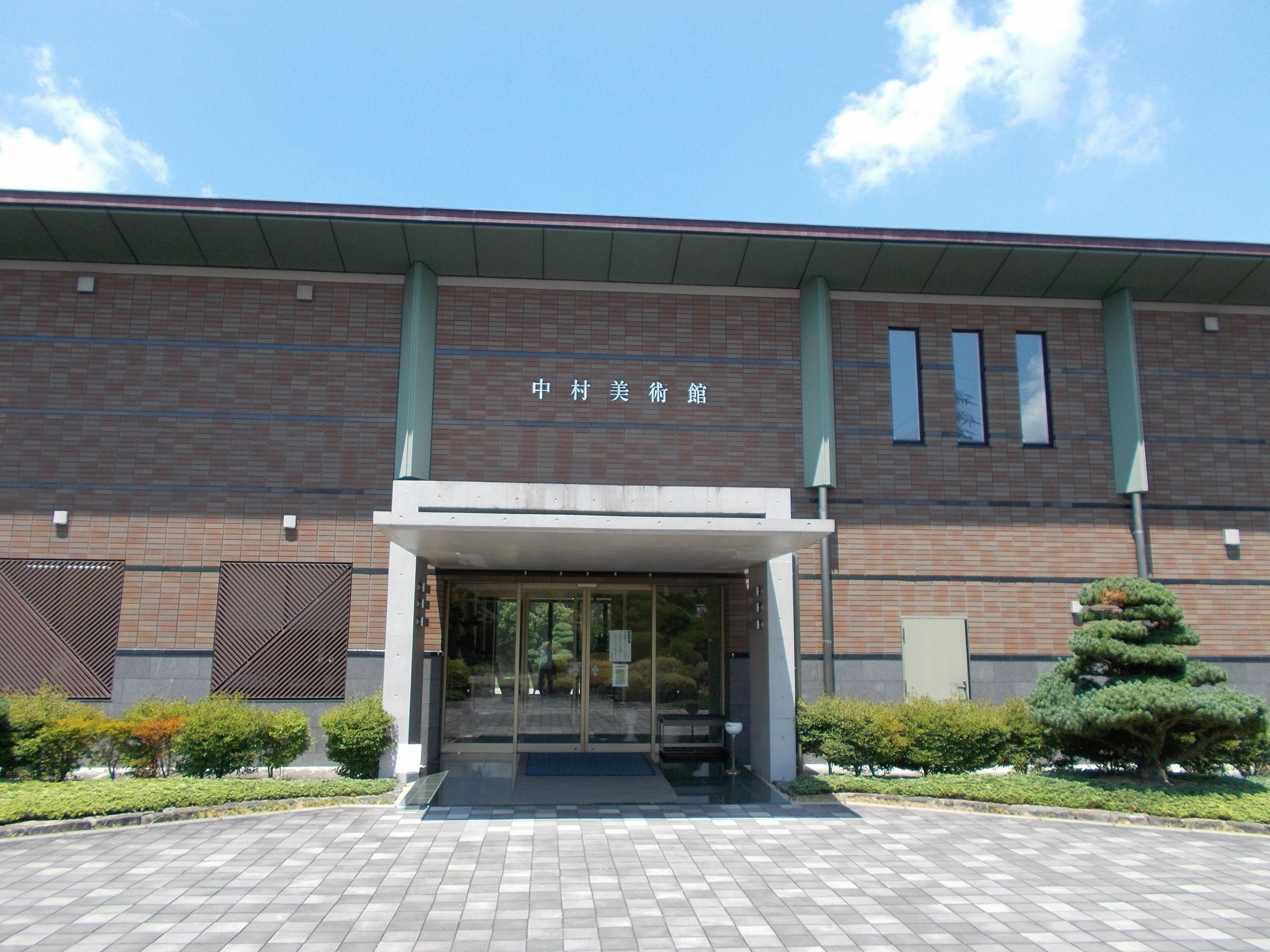 Nakamura Art Museum, Tagawa, Fukuoka, Japan